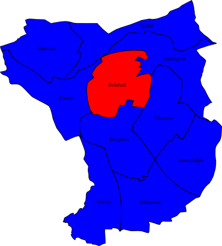 A map of the results of the 2008 Tamworth Council election. Colour legend by wards won: Conservative party Labour party